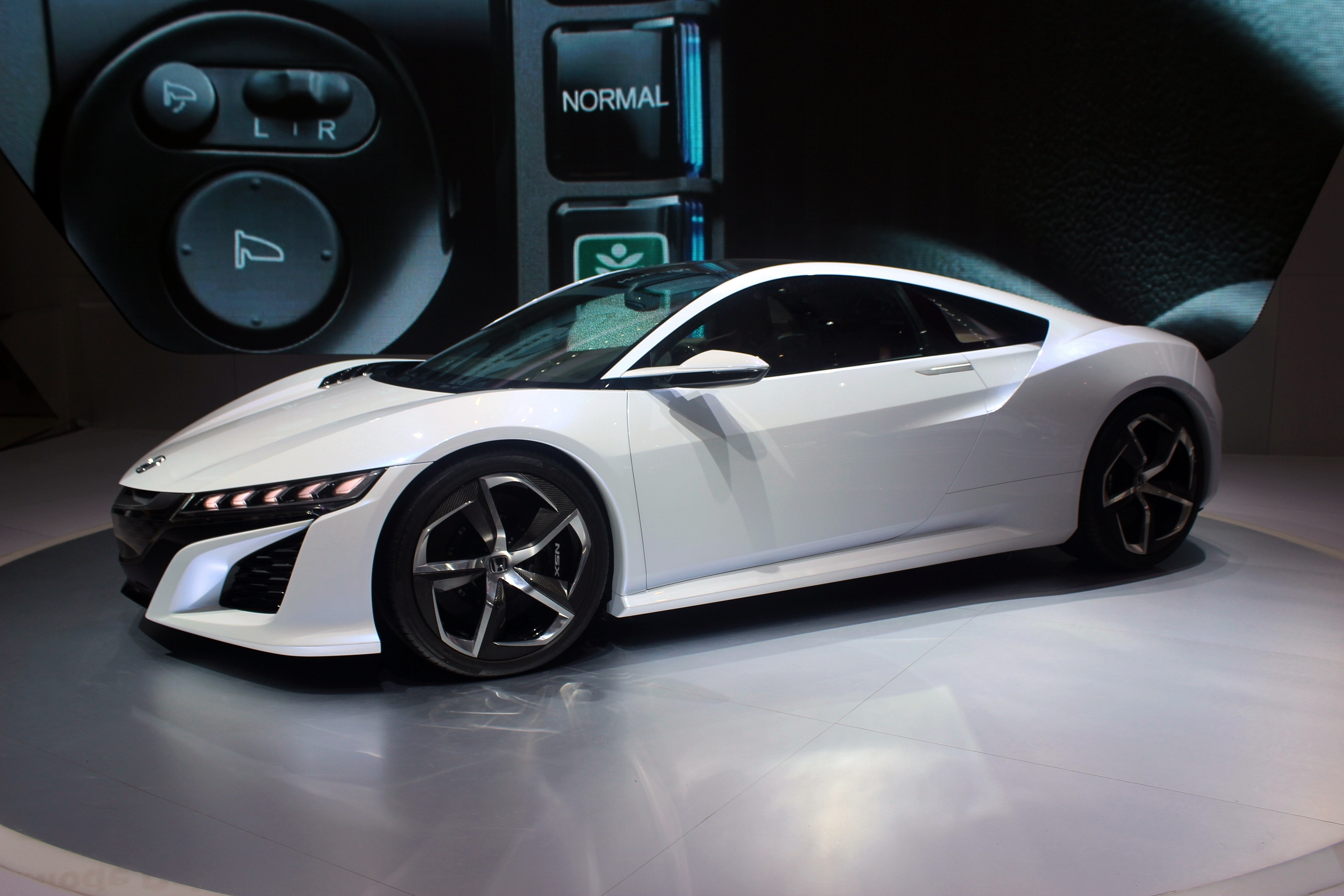 A Honda NSX Concept photographed in Indonesia International Motor Show 2014, Jakarta, Indonesia on September 27, 2014.